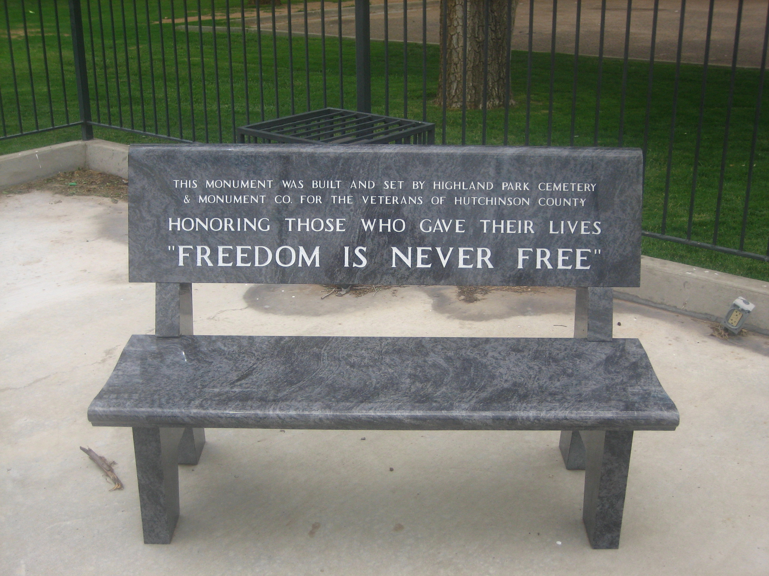 A park bench with inscription "Freedom Is Never Free"; Veterans memorial in Hutchinson County, Texas.